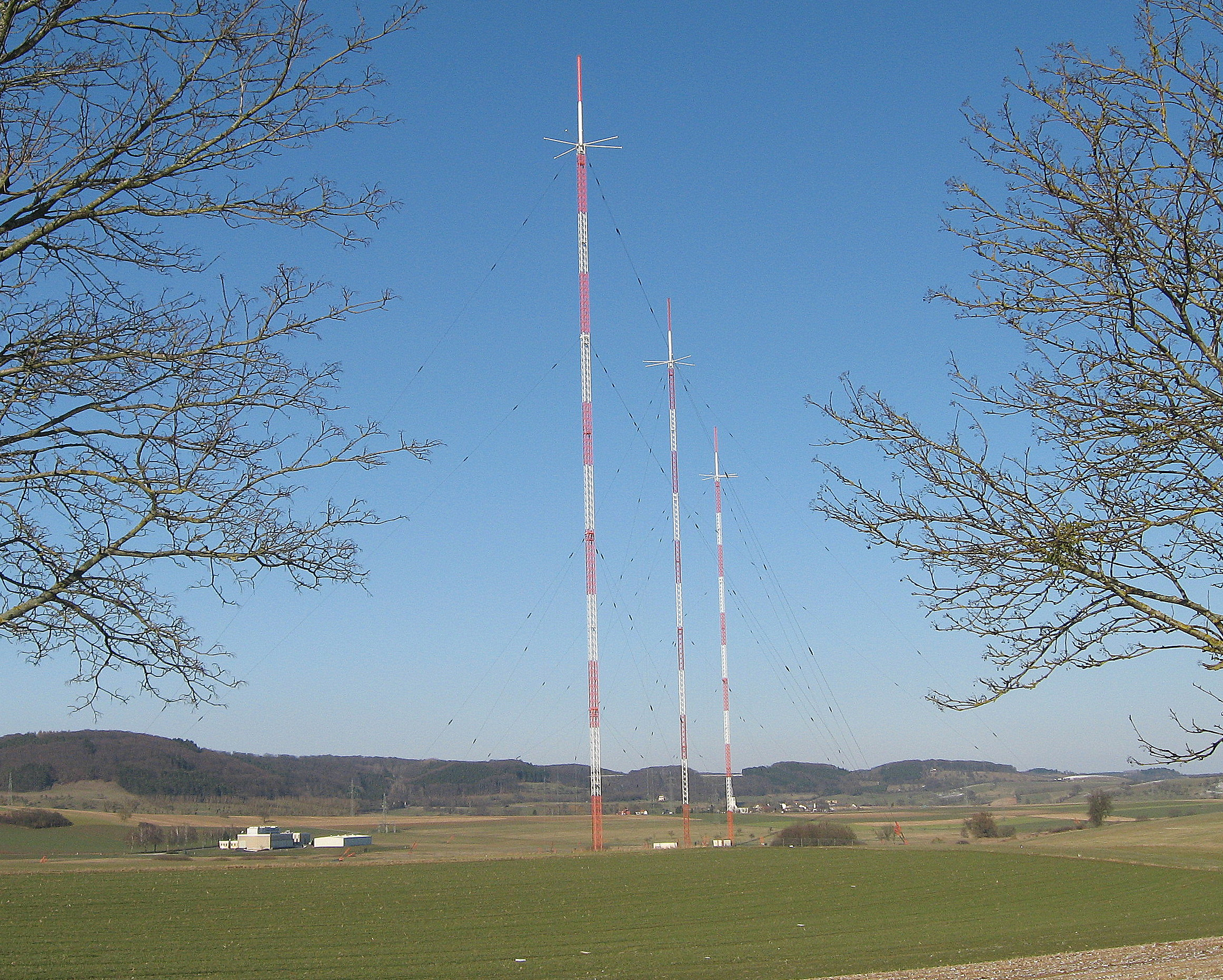 The Beidweiler (Luxembourg) Longwave Transmitter is a high-power broadcasting transmitter for the French-speaking programme of RTL radio on the longwave frequency 234 kHz